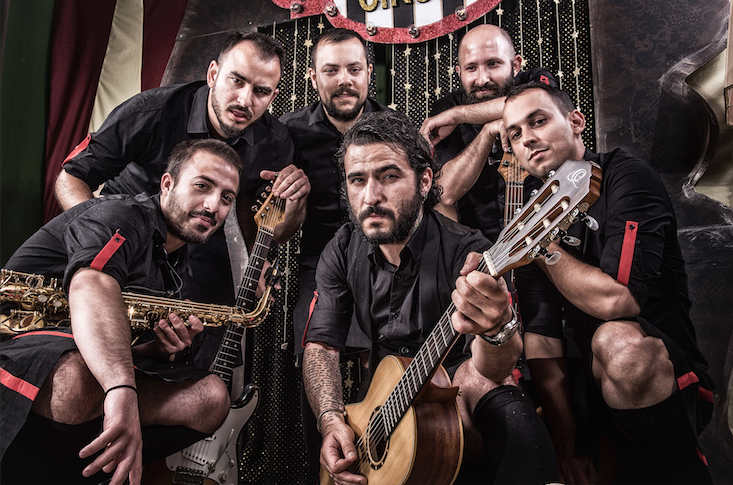 photo of Koza Mostra band during 2017